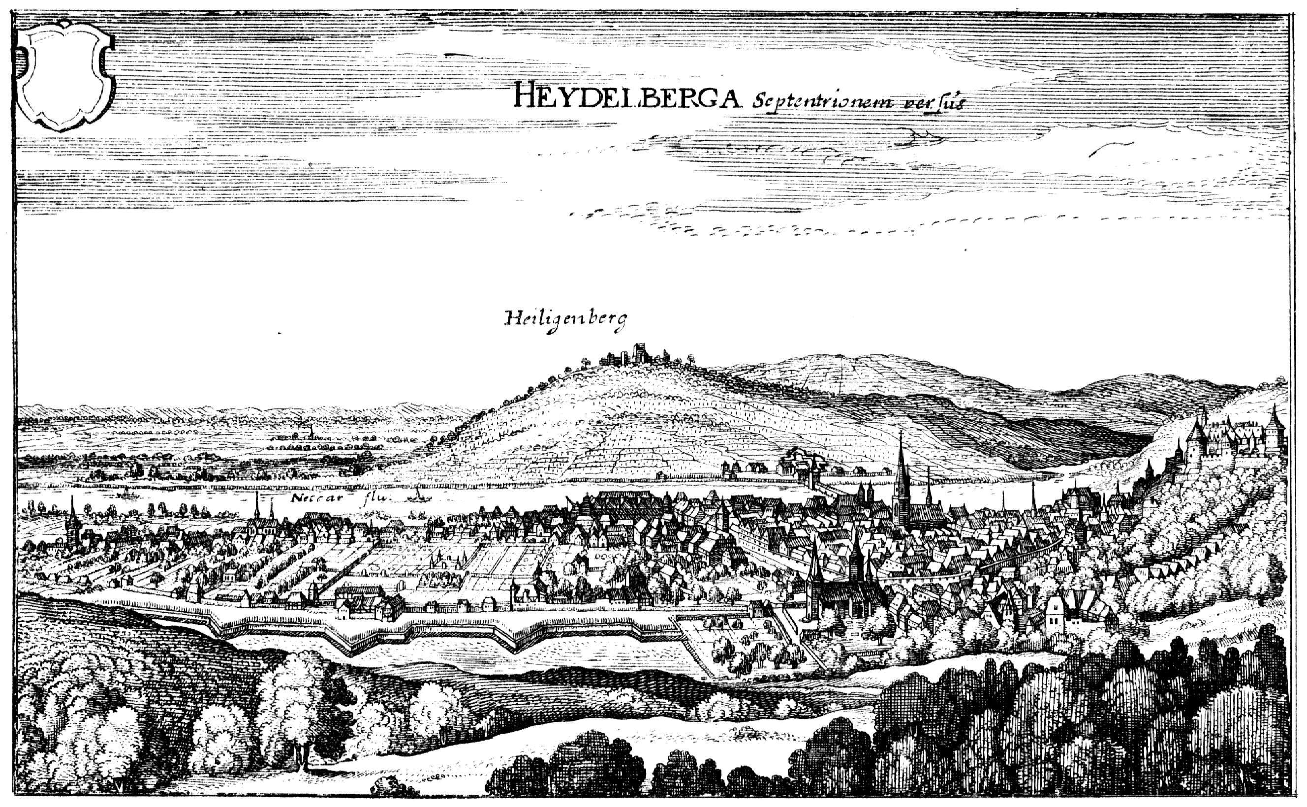 Etching Heidelberg, view from the Sprunghöhe Published: 1645 Size: 10,2 × 16,7 cm